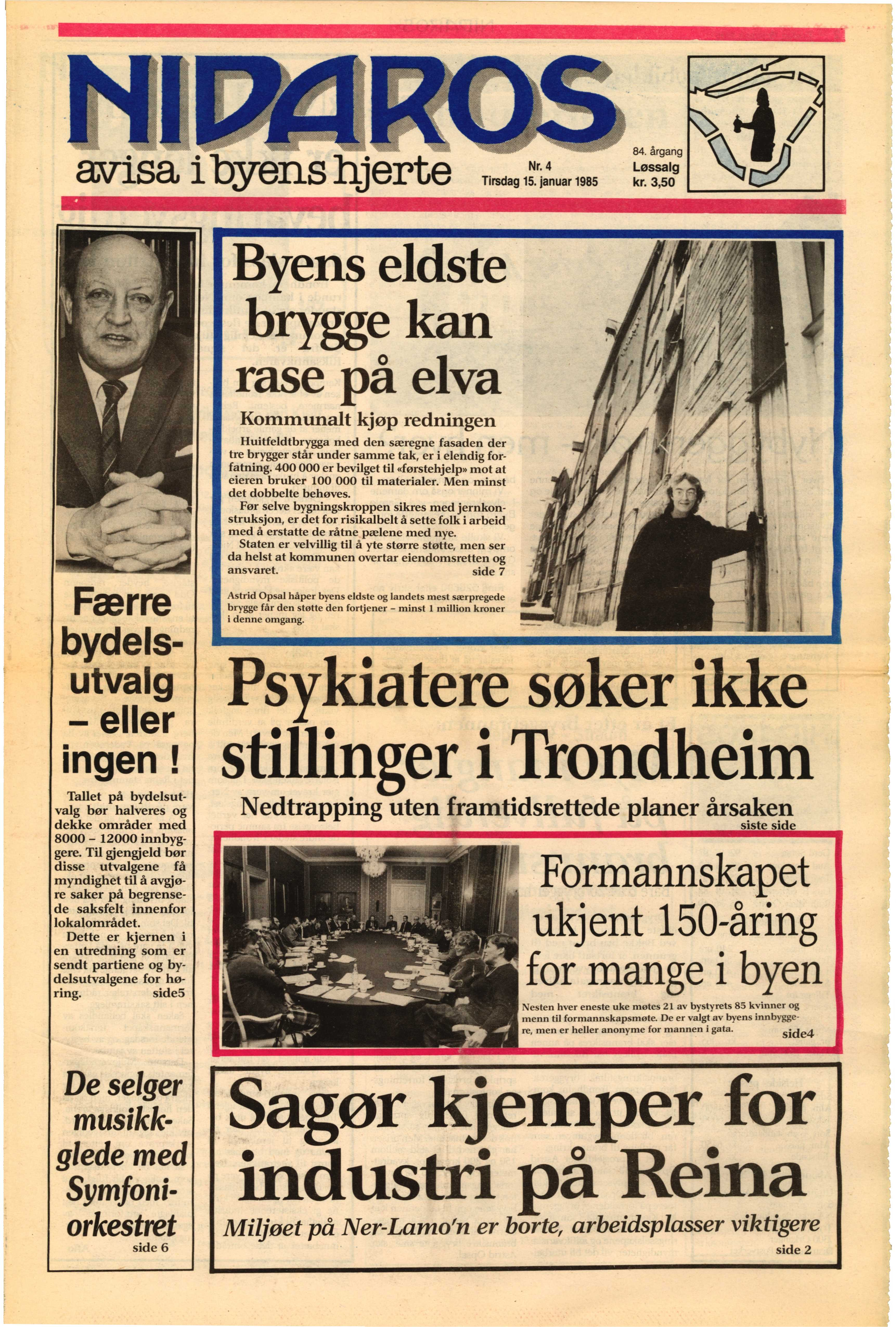 Format: Dokument - Avisartikkel i Nidaros Dato / Date: 15.01.1985 Sted / Place: Trondheim Wikipedia: Nidaros (avis) Eier / Owner Institution: Trondheim byarkiv, The Municipal Archives of Trondheim Arkivreferanse / Archive reference: Byggesaksarkivet: Kjøpmannsgata 13 (Boks 3243) [Nidaros 15.01.1985 s. 1.]